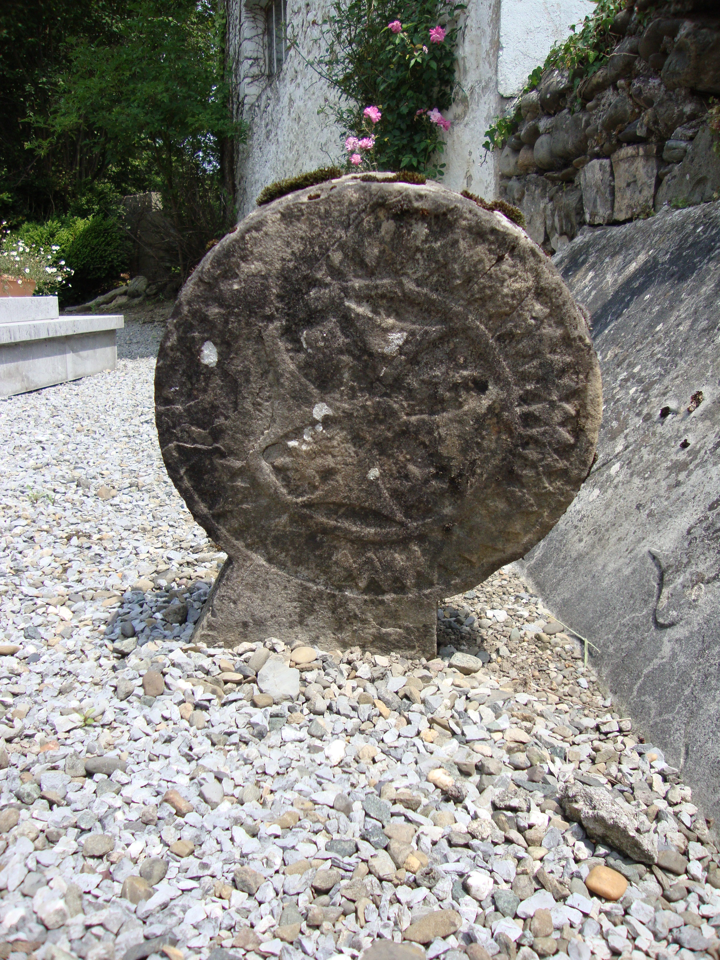 Abense-de-Bas (Viodos-Abense-de-Bas, Pyr-Atl,Fr) old basque stele